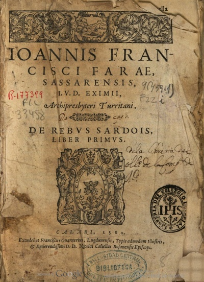 Ioannis Francisci Farae ... De rebus Sardois